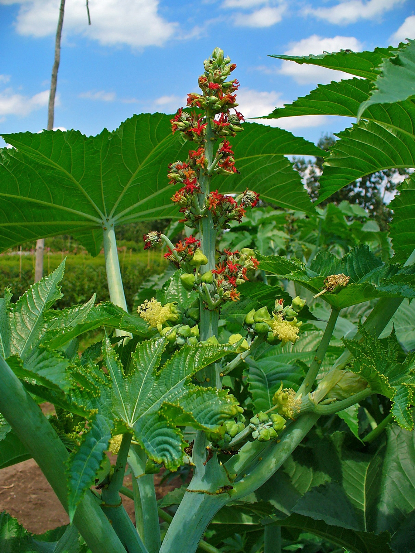 Ricinus communis, Euphorbiaceae, Castor Oil Plant, inflorescence.